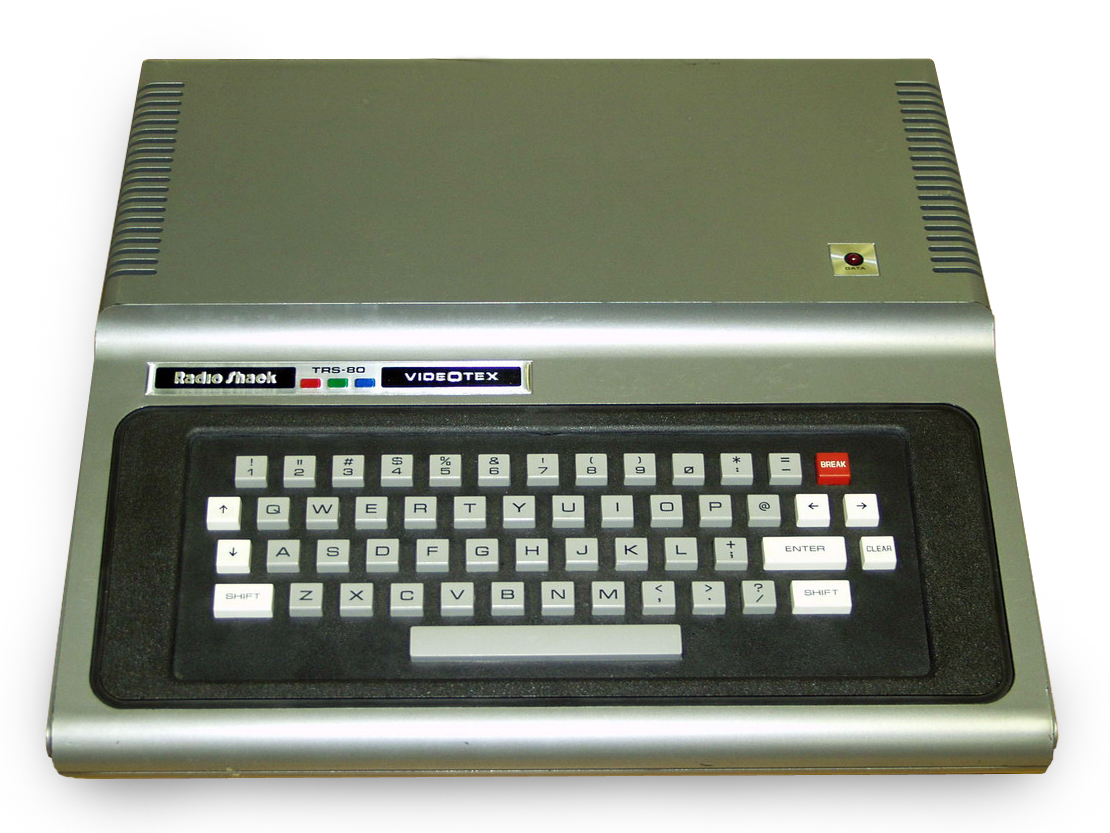 The Radio Shack VideoTex Terminal, circa 1980. Predecessor to the TRS-80 Color Computer. From Lamune's personal collection.